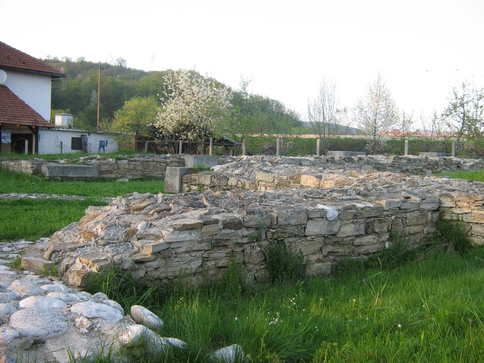 Remains of medival church in Mile